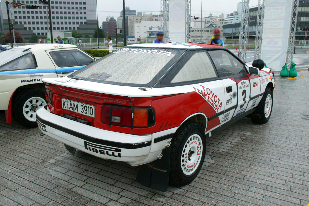 Toyota Celica ST165 Gr.A at The Spirit of Rally 2005.